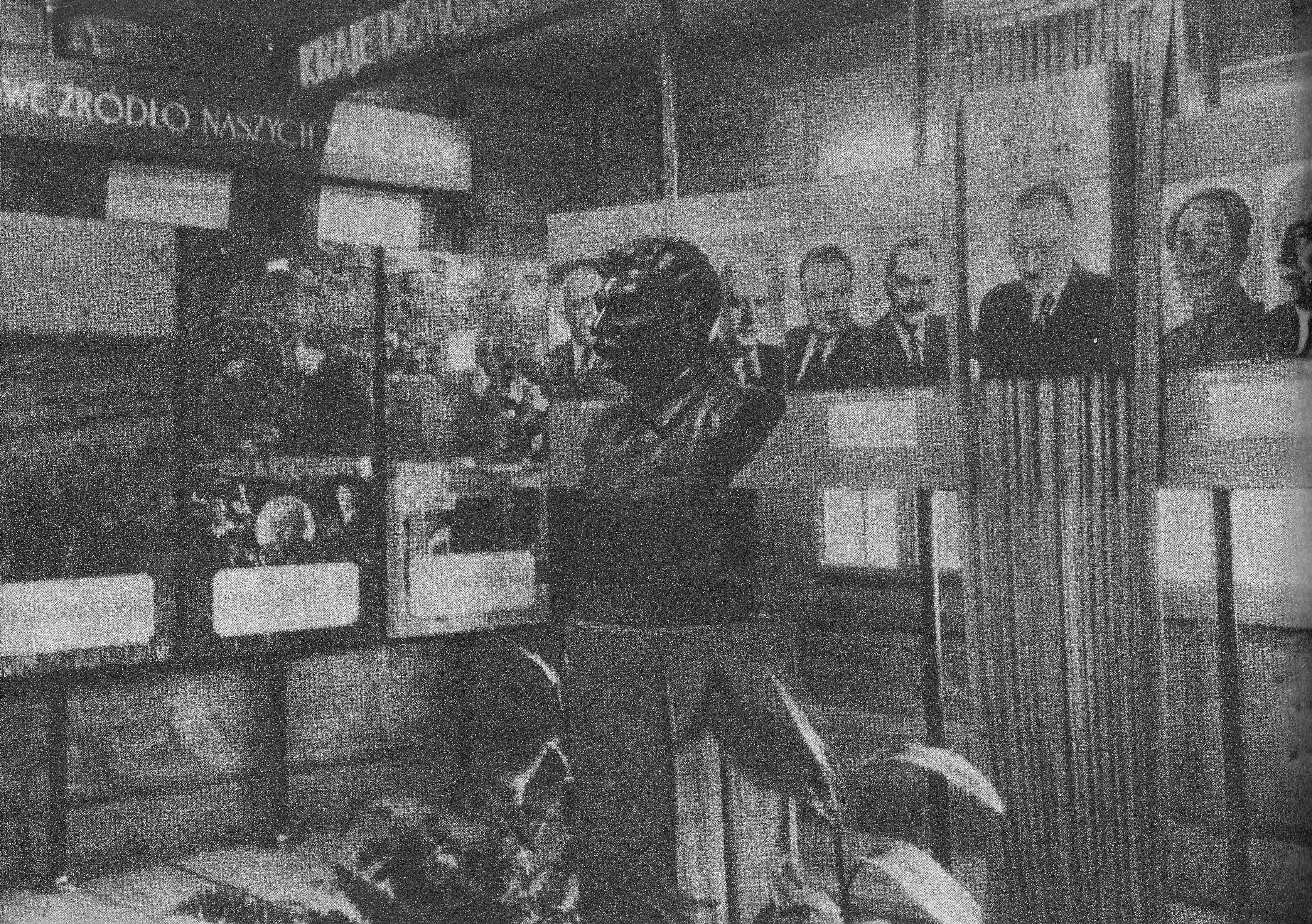 Lenin Museum in Poronin